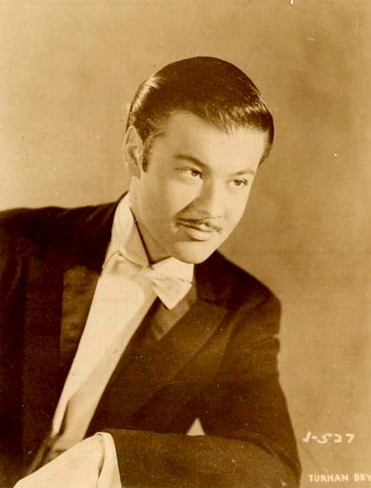 Hollywood actor Turhan Bey